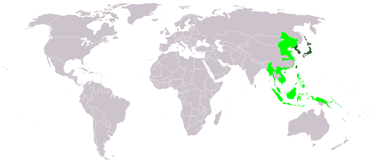 The Japanese Empire in 1942